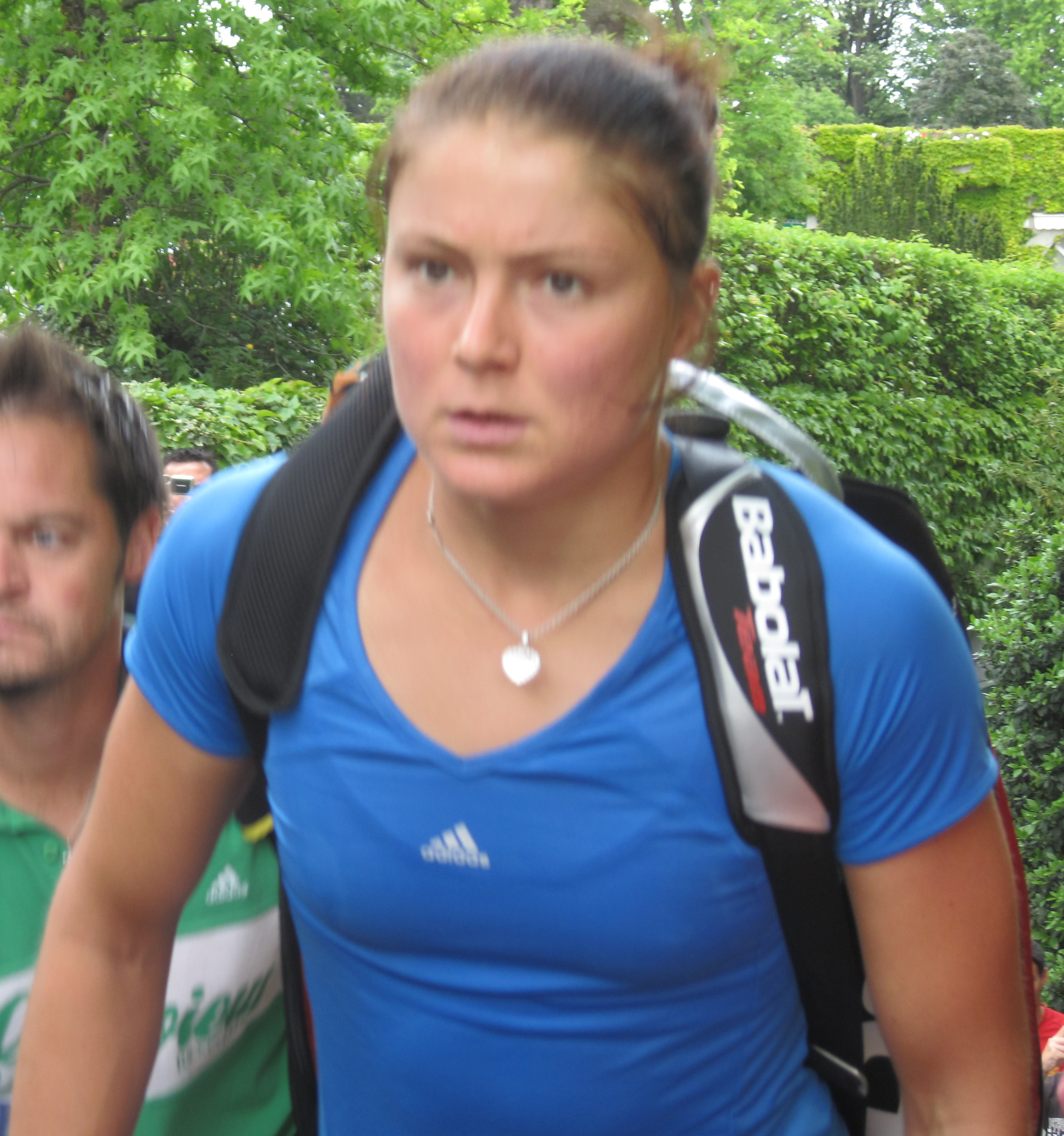 Dinara Safina at 2009 Roland Garros, Paris, France